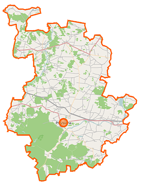 Map of Powiat przysuski, Poland This map of Powiat przysuski was created from OpenStreetMap project data, collected by the community. This map may be incomplete, and may contain errors. Don't rely solely on it for navigation. Border coordinates51.628220.4044←↕→20.904251.2189